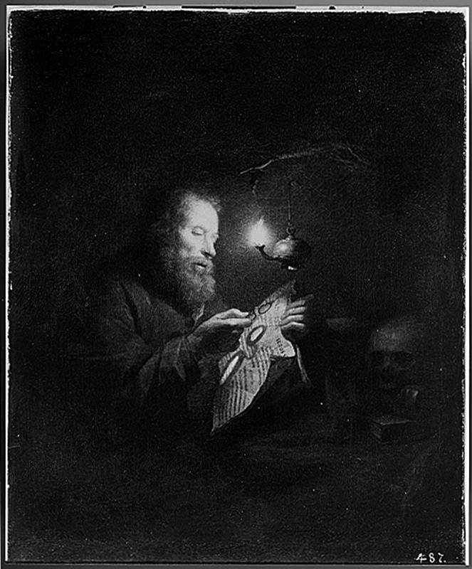 'The Recluse', by Arnold Boonen. This painting was part of the collections of the Gemäldegalerie Alte Meister in Dresden and and it has been missing since the end of World War II, in 1945. - Dimensions: 42,5 x 34 cm - Oil on canvas